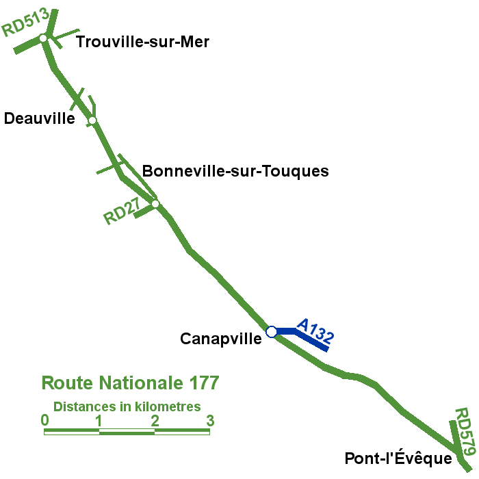 Author: Gregory Deryckère Source: Own work Date: 1sth March 2007